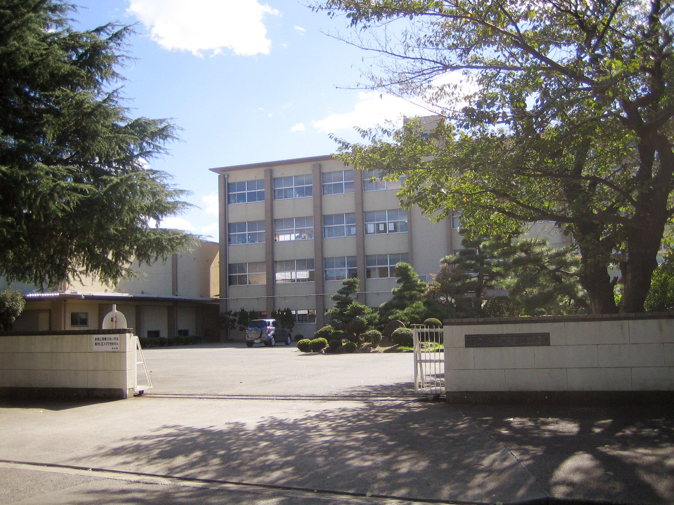 Toyokawa Technical High School (豊川工業高等学校), at Toyokawa, Aichi, Japan